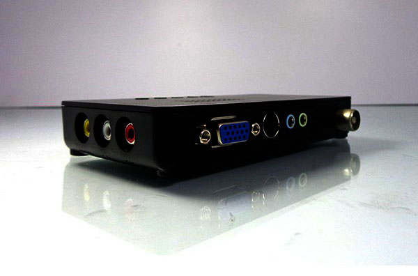 TV combo box